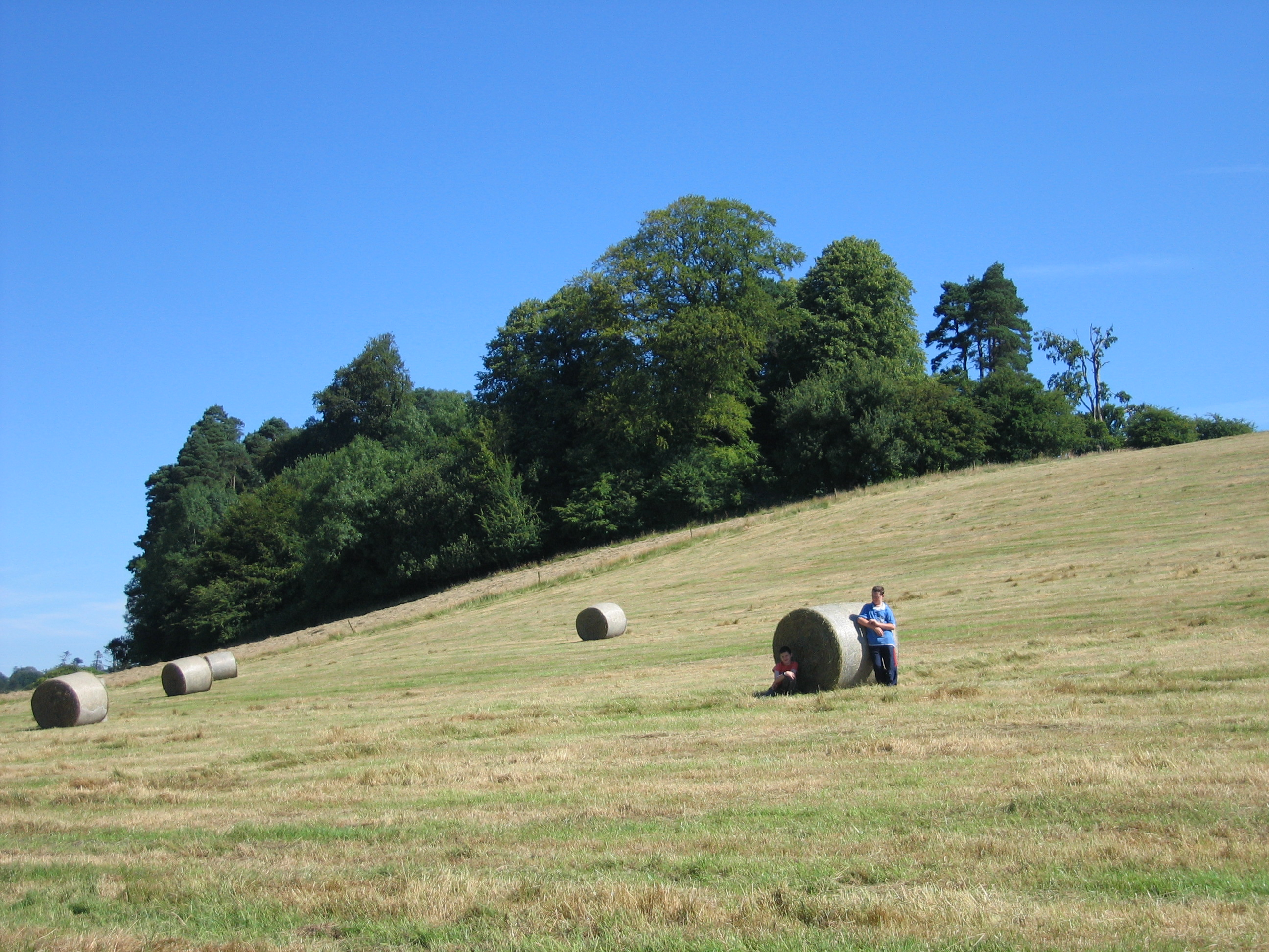 Baled hay in Cavan drumlin country in mid July near Cavan Town, Ireland.